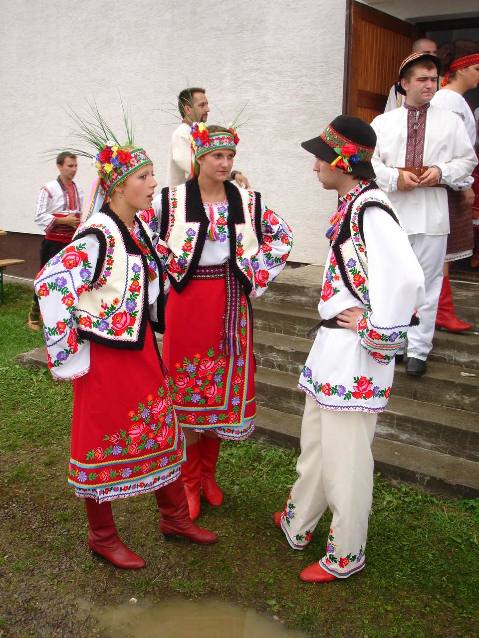 Carpatho-Rusyn_sub-groups_-_Przemyśl_area_Ukrainians_in_original_goral_folk-costumes